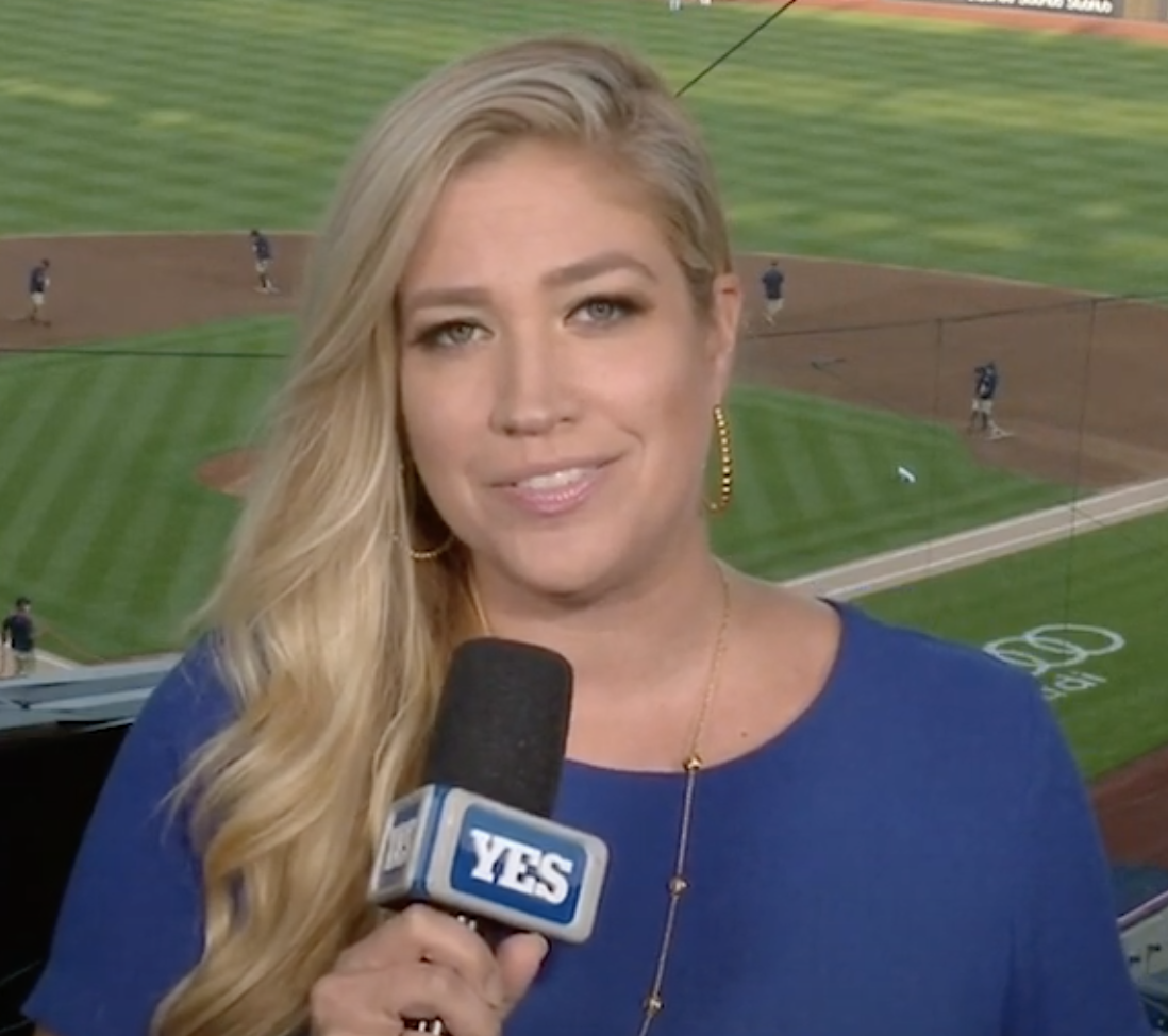 Meredith Marakovits on the YES Network's Clubhouse Report